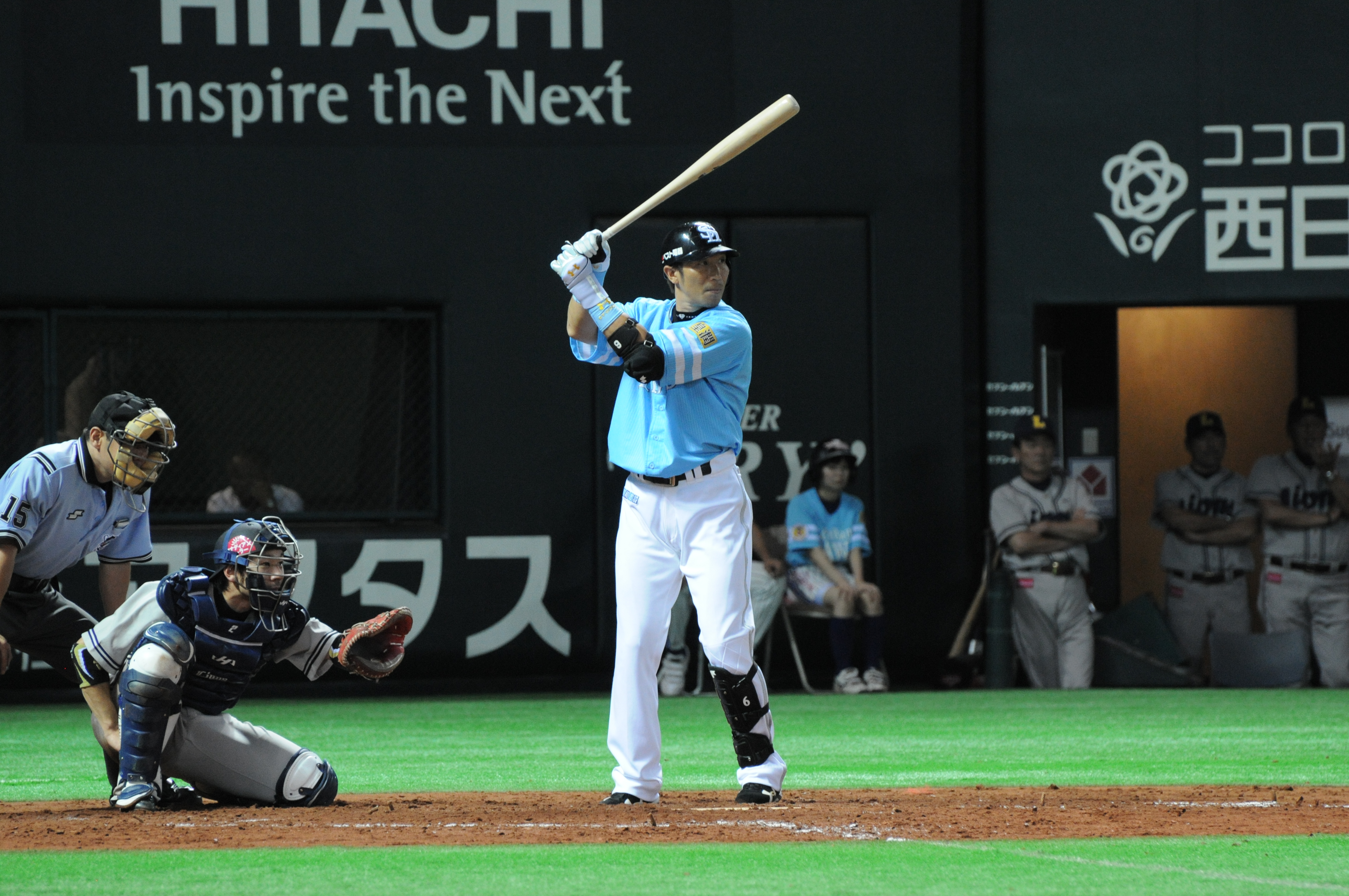 Hitoshi Tamura, outfielder of the Fukuoka SoftBank Hawks, at Fukuoka Dome.